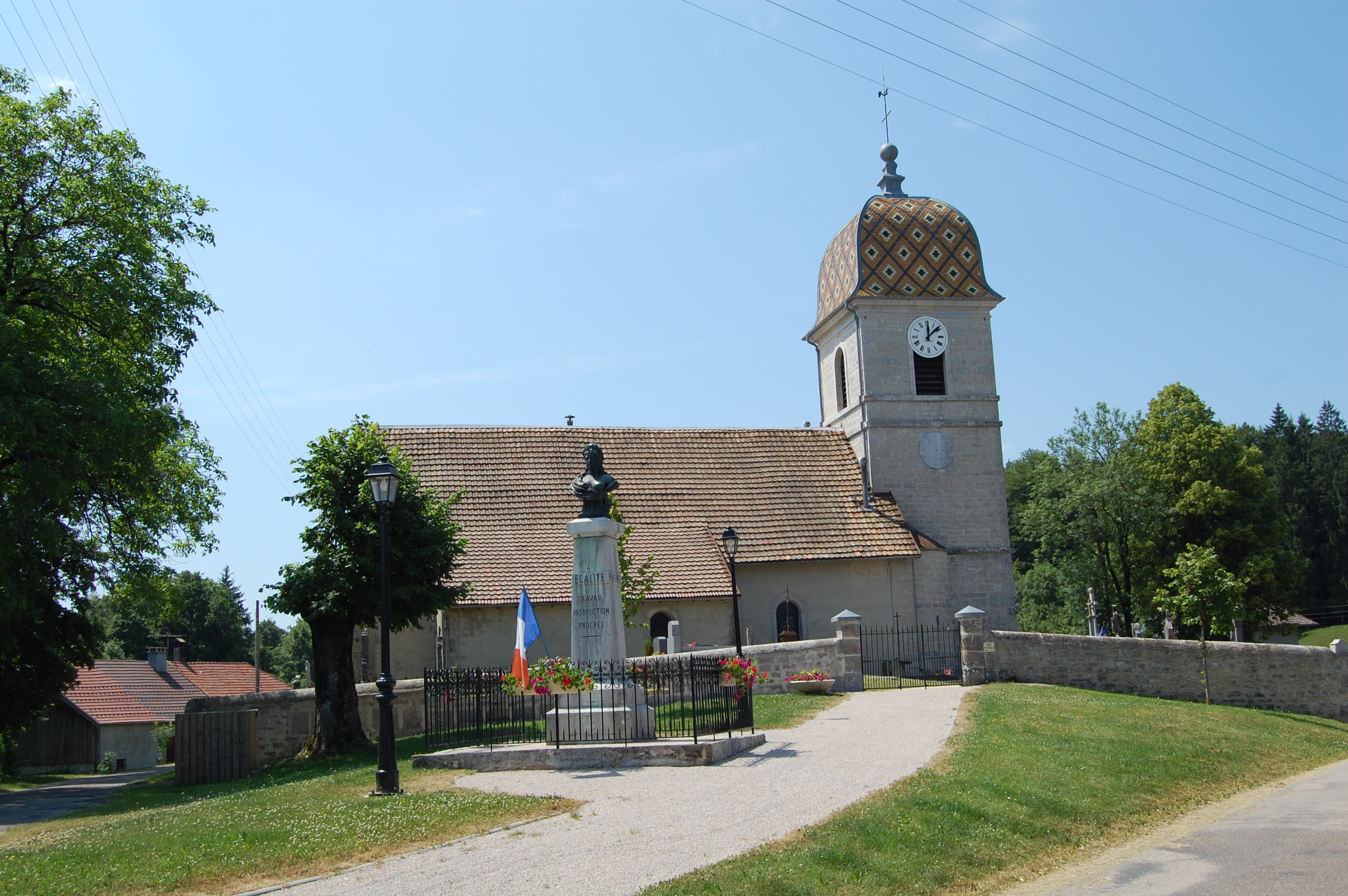 Châtelneuf is a village in the Jura landscape, France.